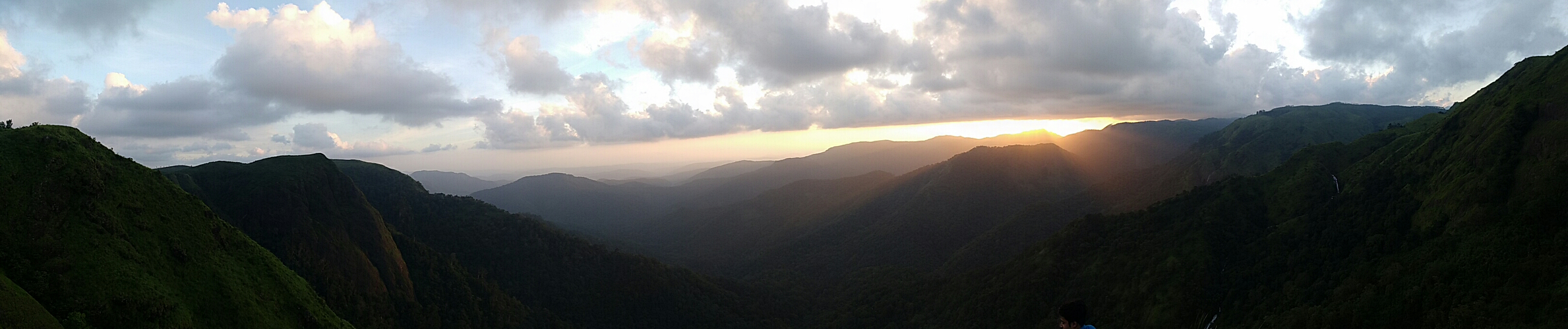 This is a panorama view taken from Parunthumpara.